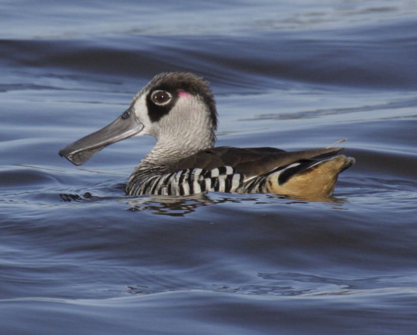 Pink-eared Duck (Malacorhynchus membranaceus) Gatton SE Queensland, Australia